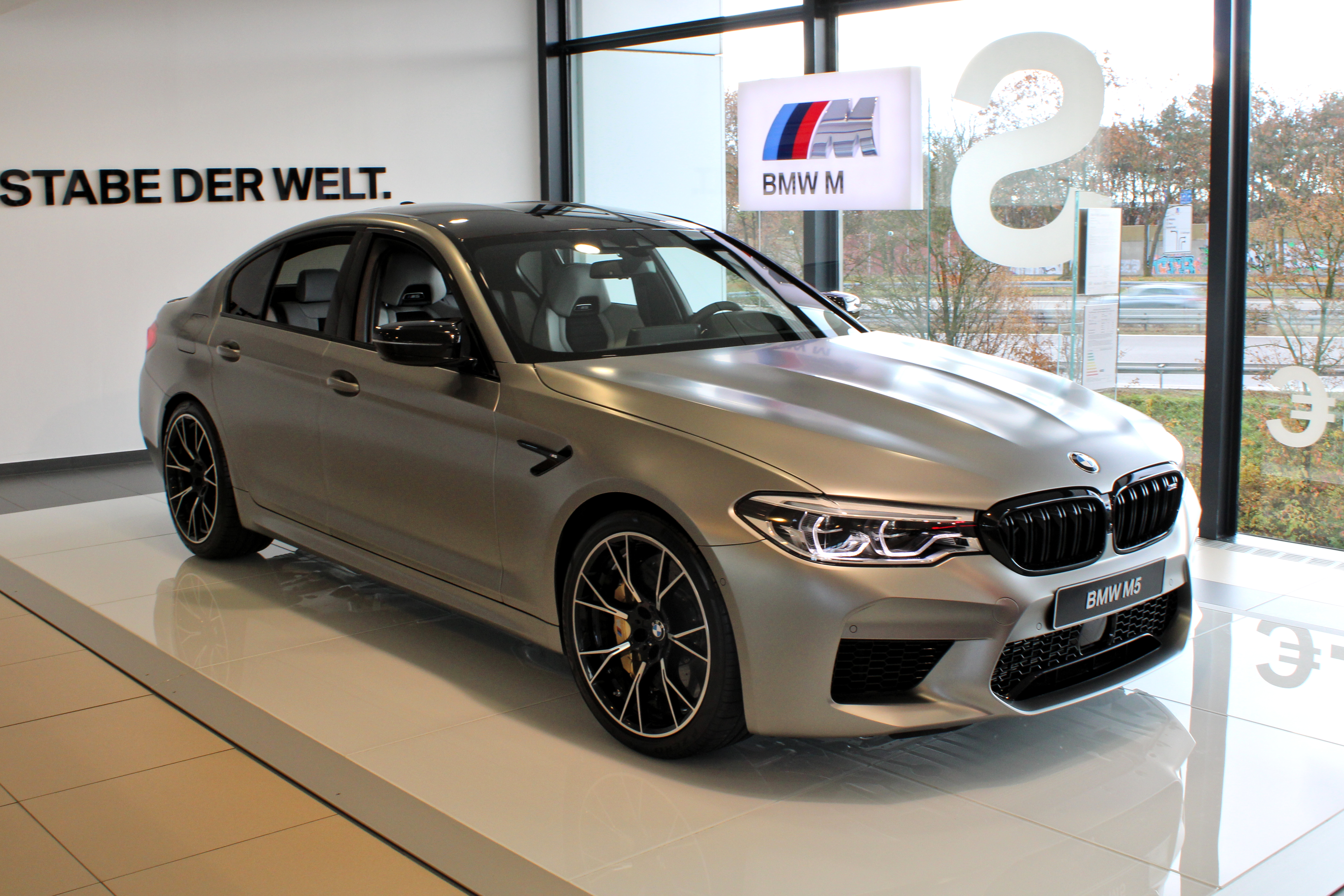 BMW M5 Competition in Stuttgart-Vaihingen